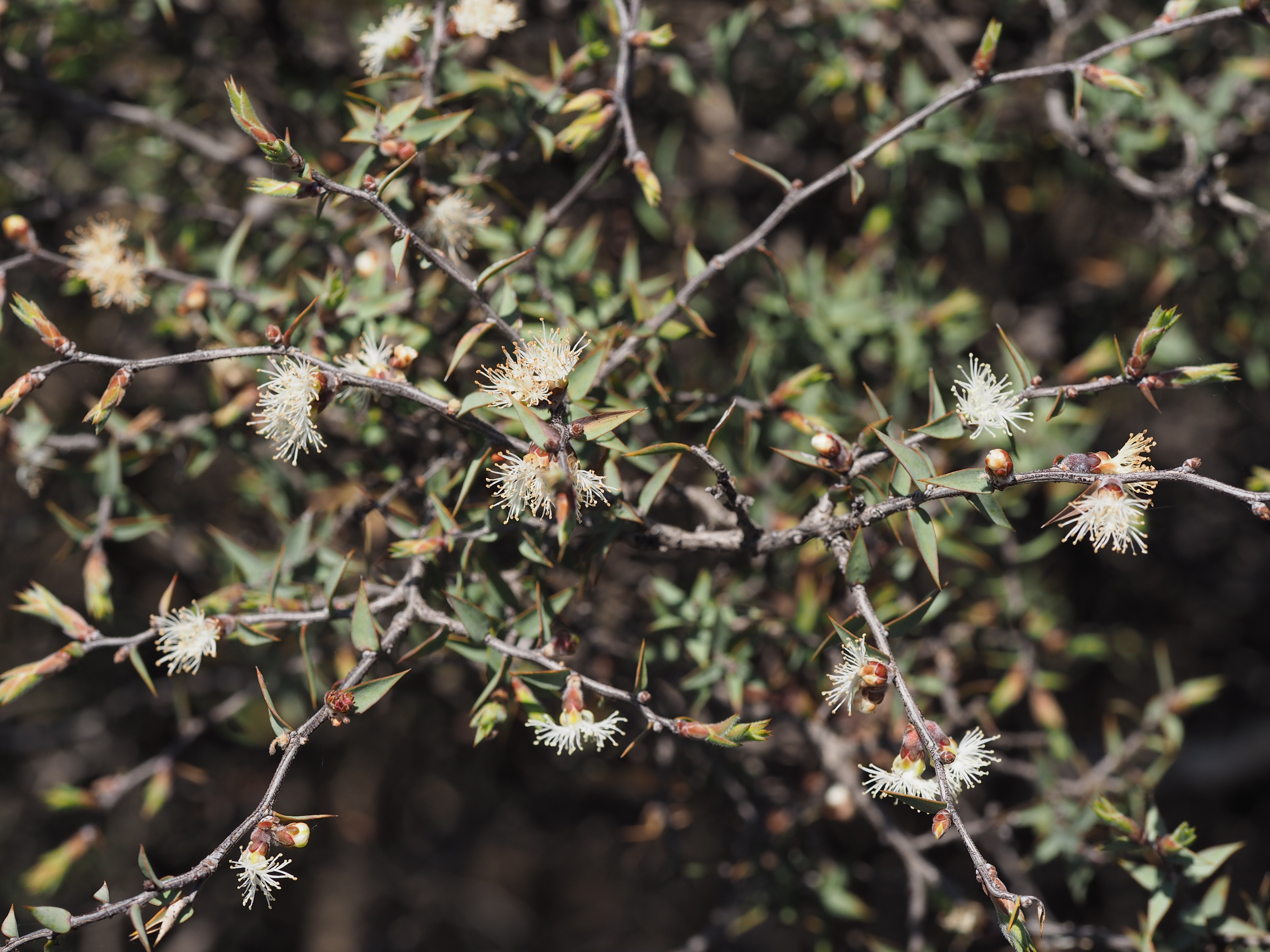 Melaleuca podiocarpa growing near Lake Grace